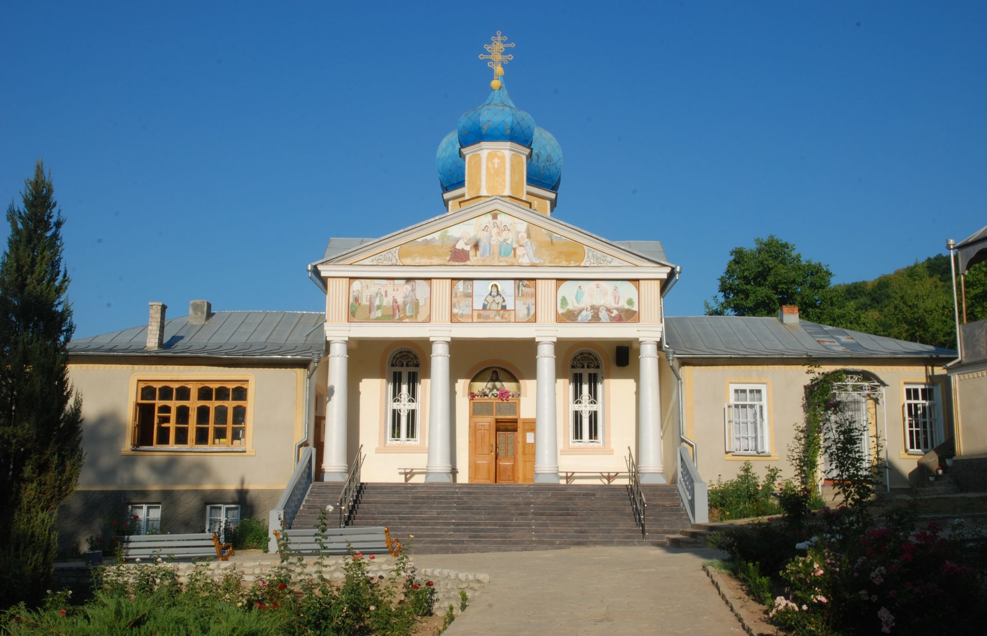 Călărășeuca monastery, main church